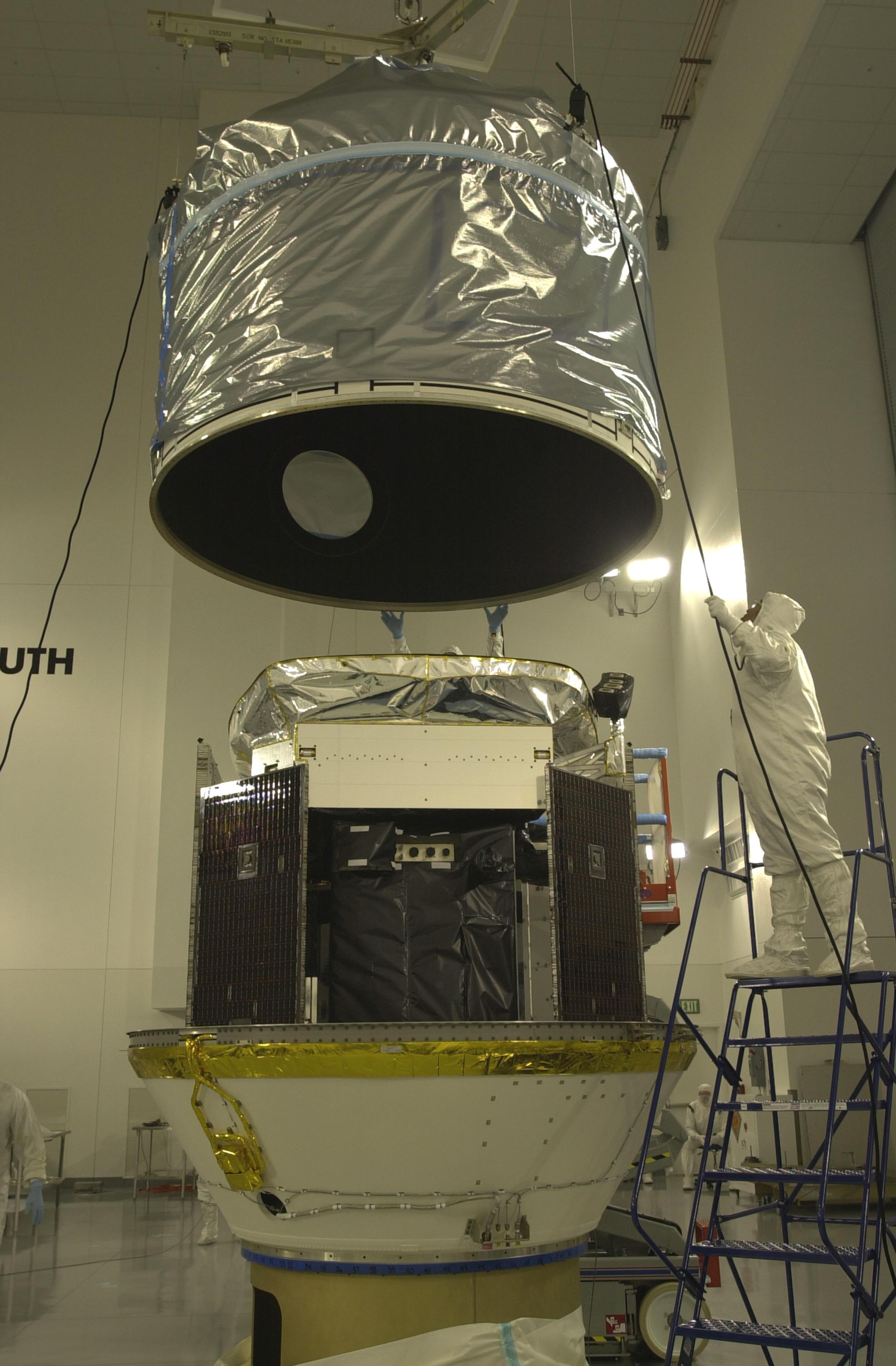 The upper part of the dual-payload attach fitting is lowered over CloudSat.